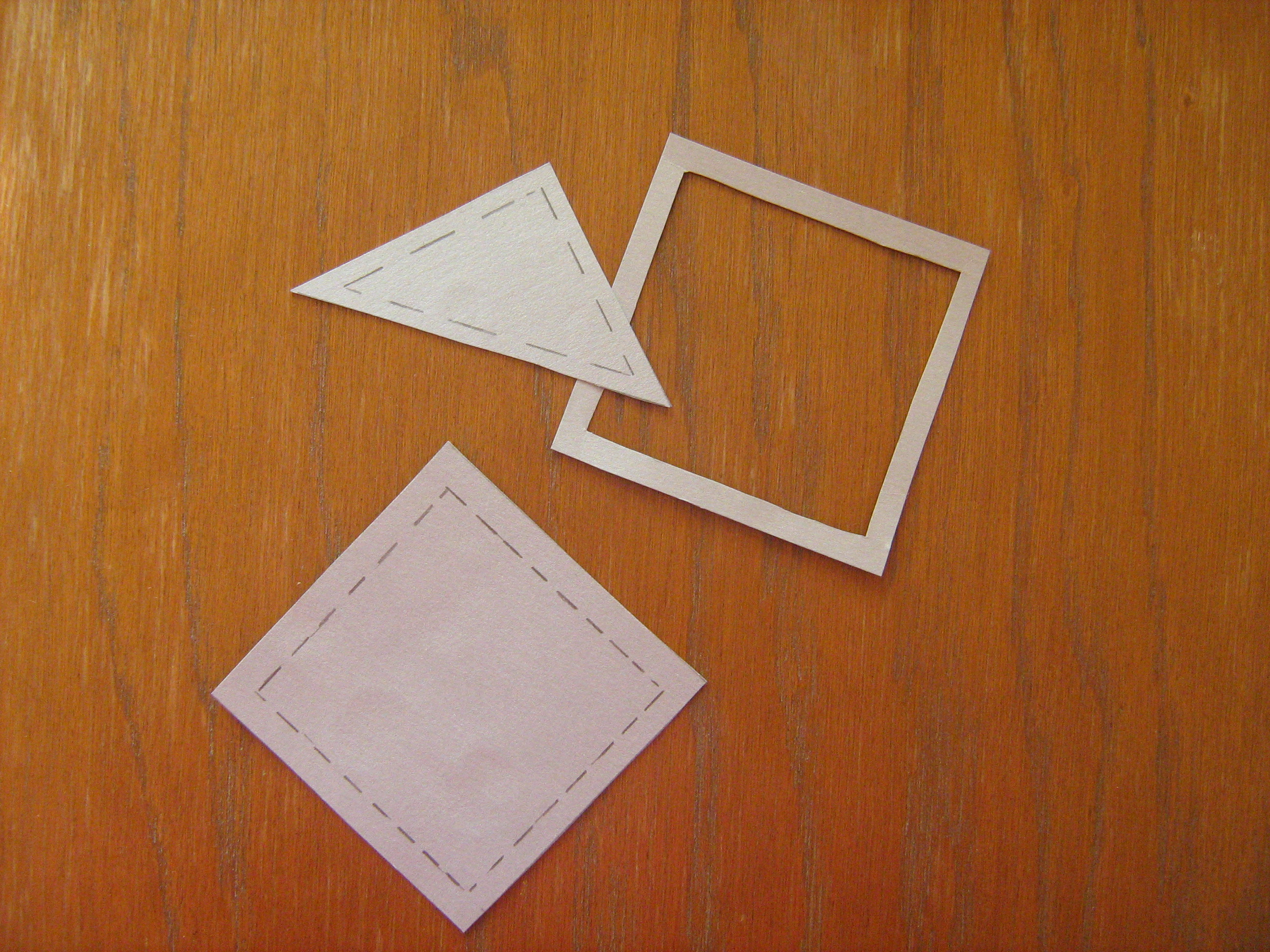 Templates for scrappy sewing